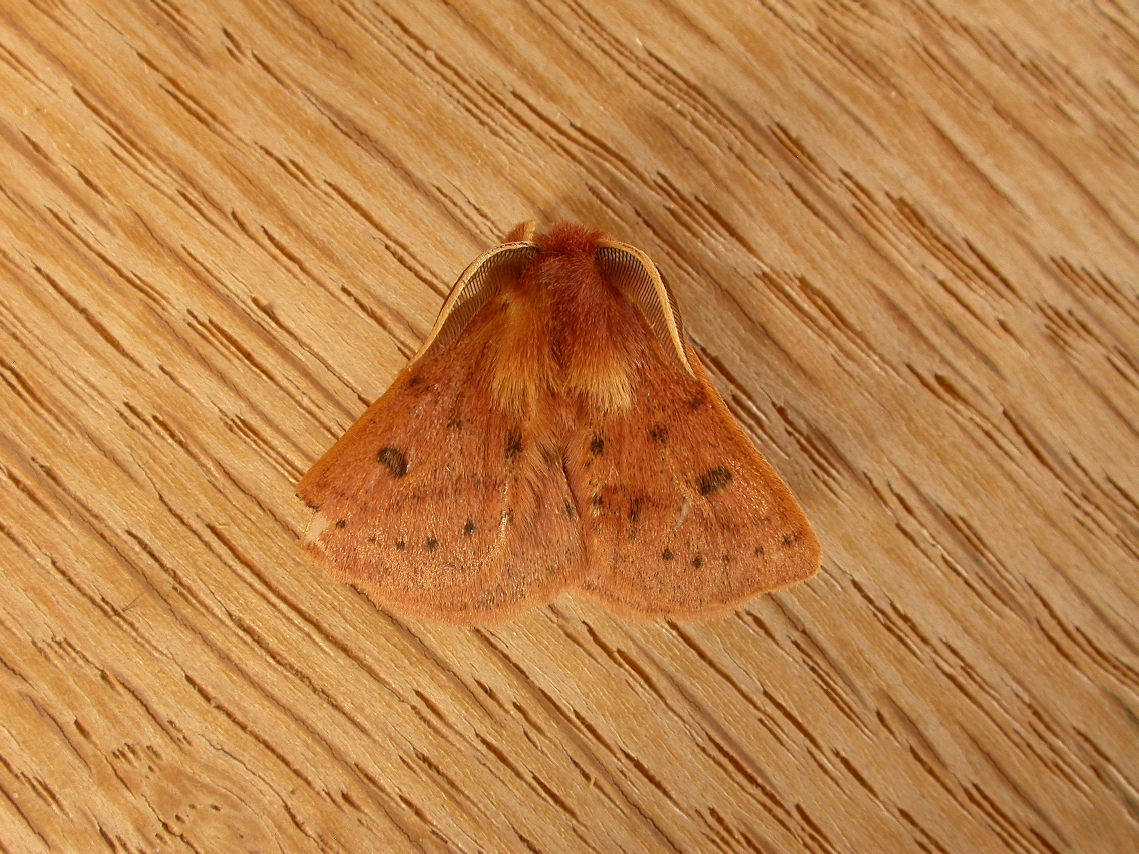 Anthela ferruginosa Walker, 1855, to MV light, Merimbula, NSW, 6/7 November 2010